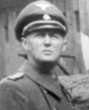 SS Major General Juergen Stroop (second from left) gathers information from a civilian on the second day of the suppression of the Warsaw Ghetto Uprising. Accompanying Stroop are the various officers of his command staff.